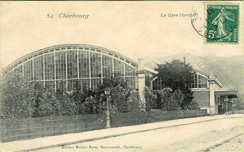 Cherbourg Station side of the arrival